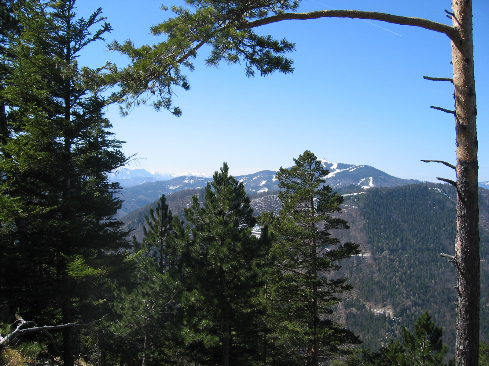 View from Gaisstein (974 m) to the Unterberg (1342 m; Gutensteiner Alpen, Lower Austria), ca. WSW (corrected by Geof, 11.7.07)